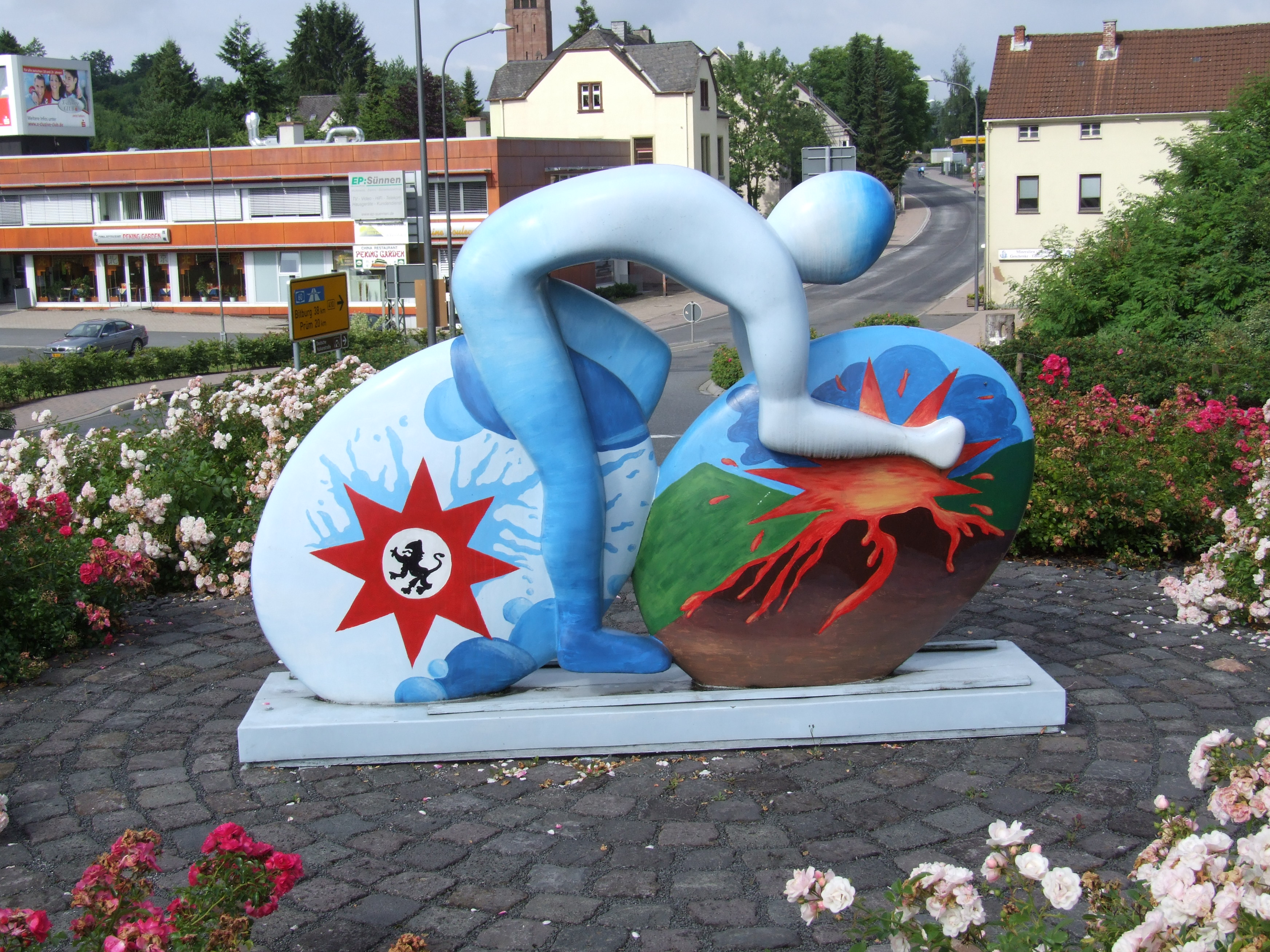 bikeracer at Gerolstein, made in 2006 by the students of the St. Matthias-Gymnasium in Gerolstein.